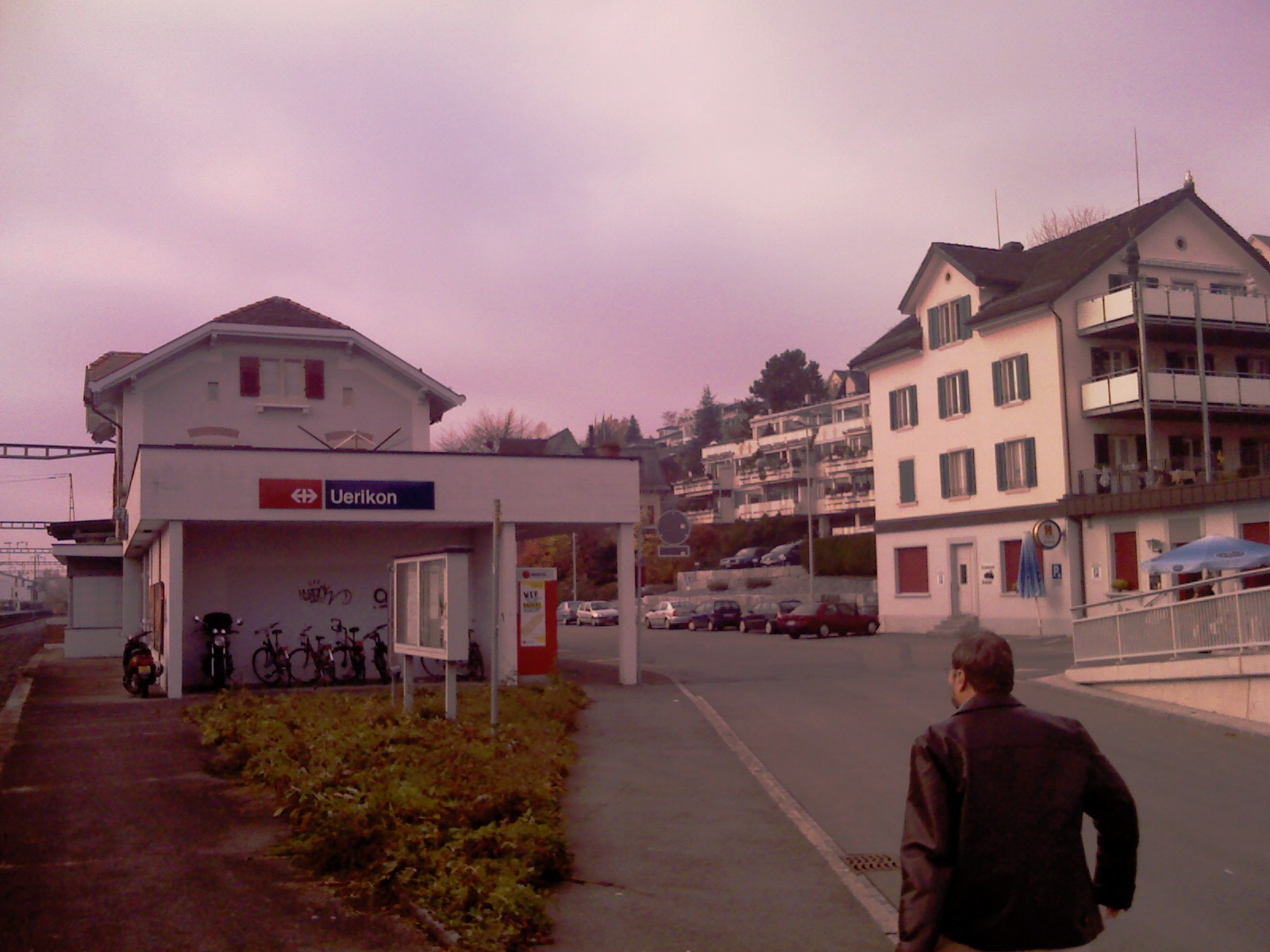 Railwaystation of Uerikon in the city of Stäfa in the Canton of Zurich, Switzerland